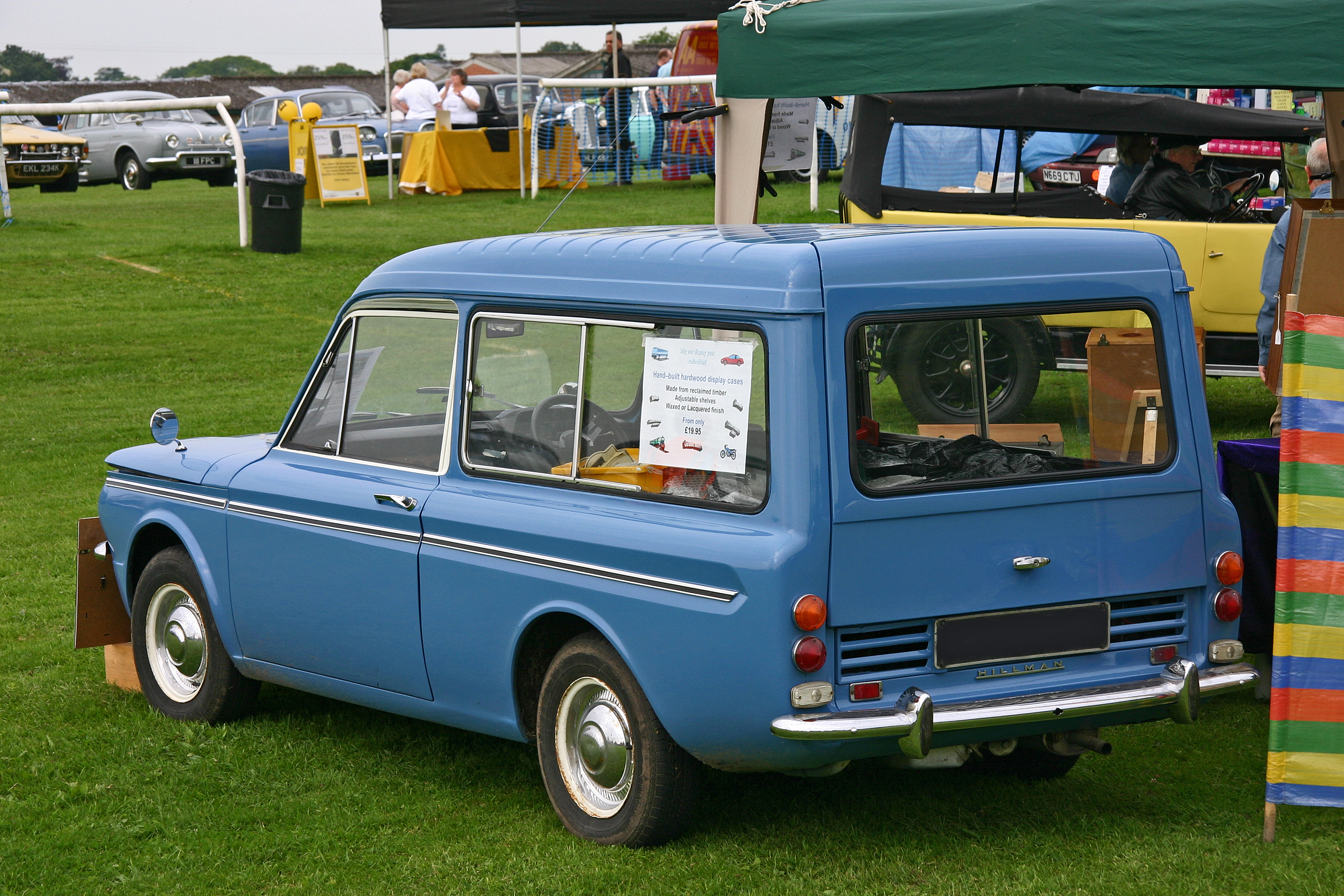 Hillman Husky. The 4inch higher roof was necessary because of the high floor level over the rear engine.